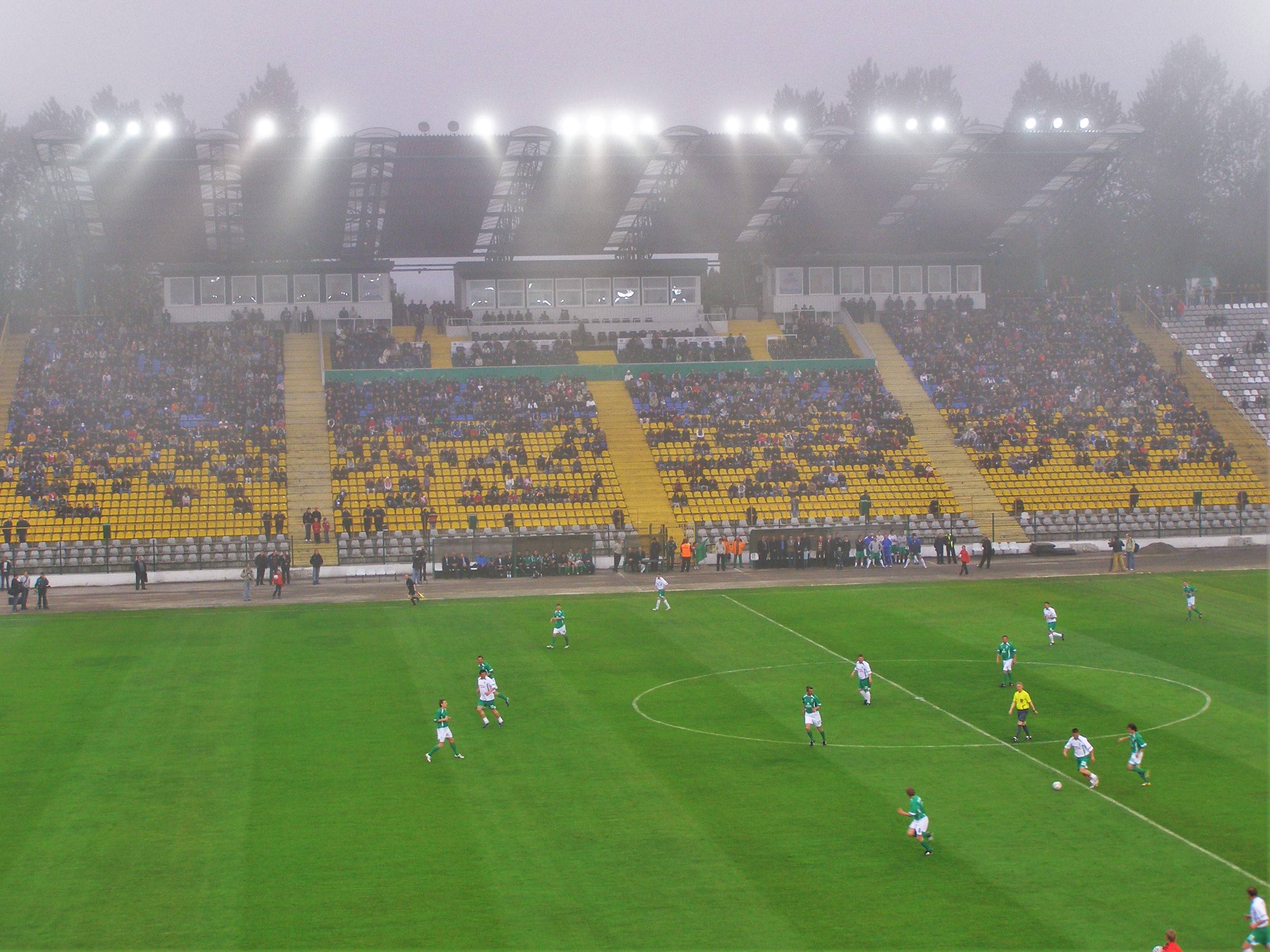 Ukrayina Stadium (Lviv)